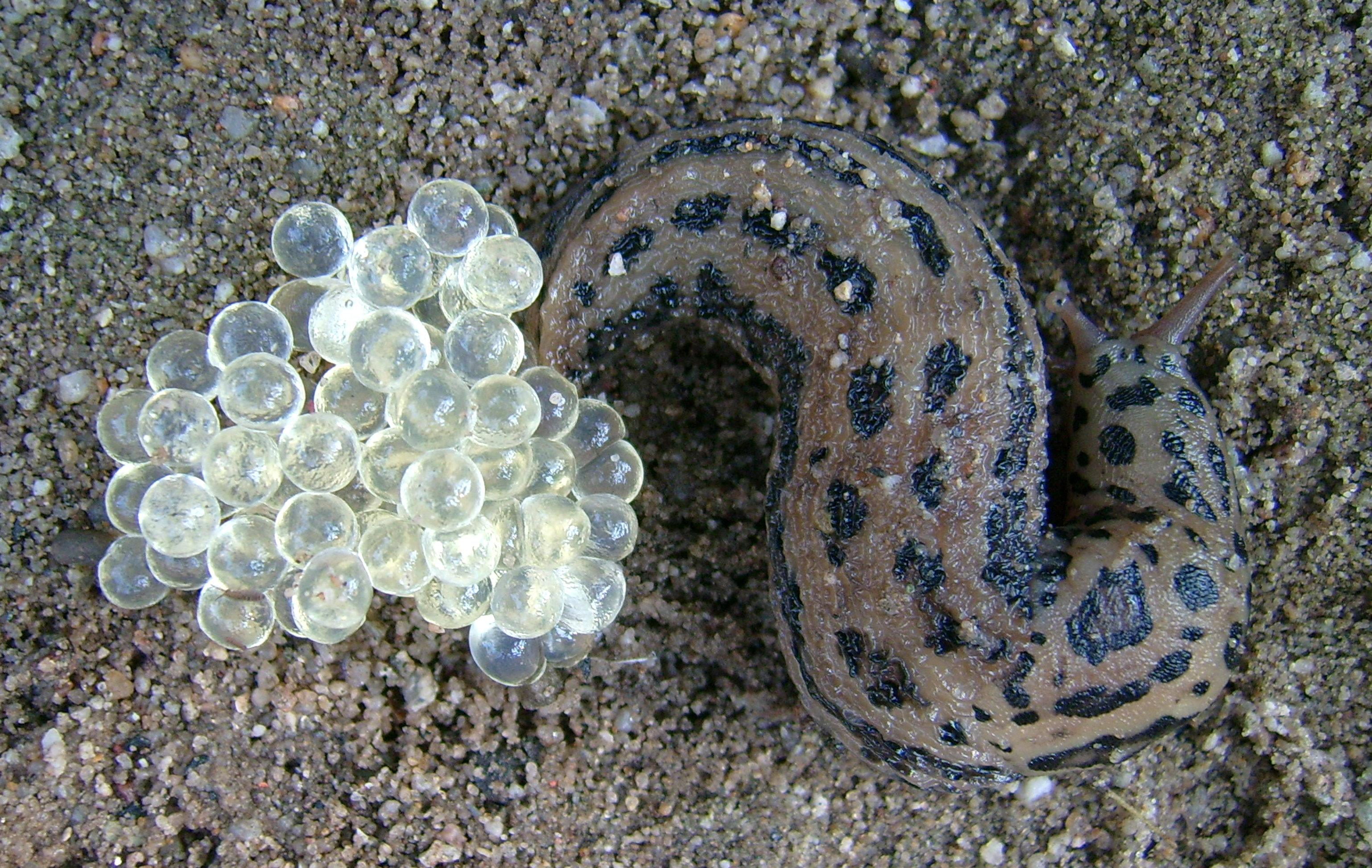 Tiger slug with its eggs. I took the photo under the awning of the sand-box of our kids. The sand-box was unused for a longer time.